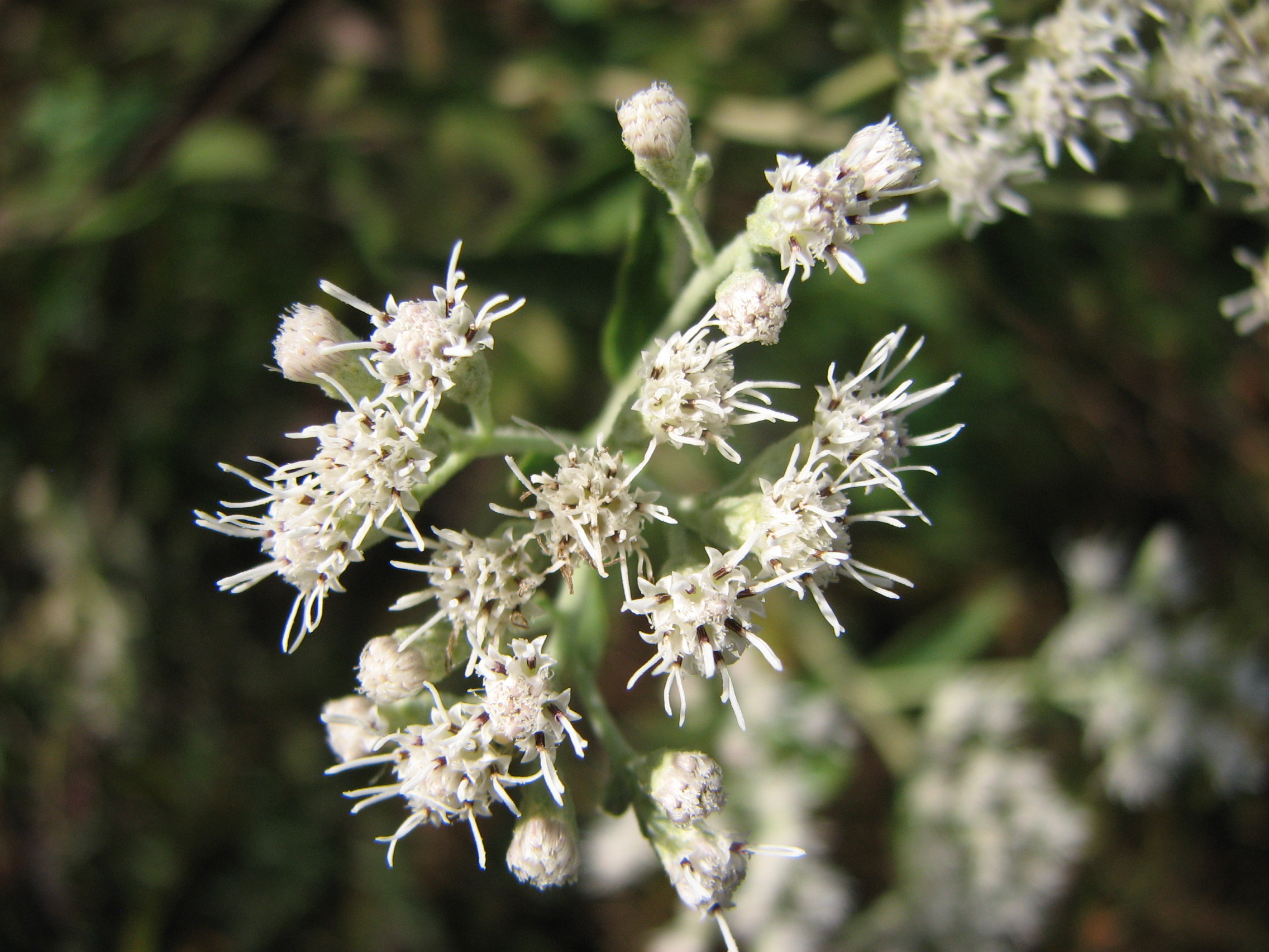 Eupatorium resinosum, showing the 9–14 flowers per flowerhead typical of the species.